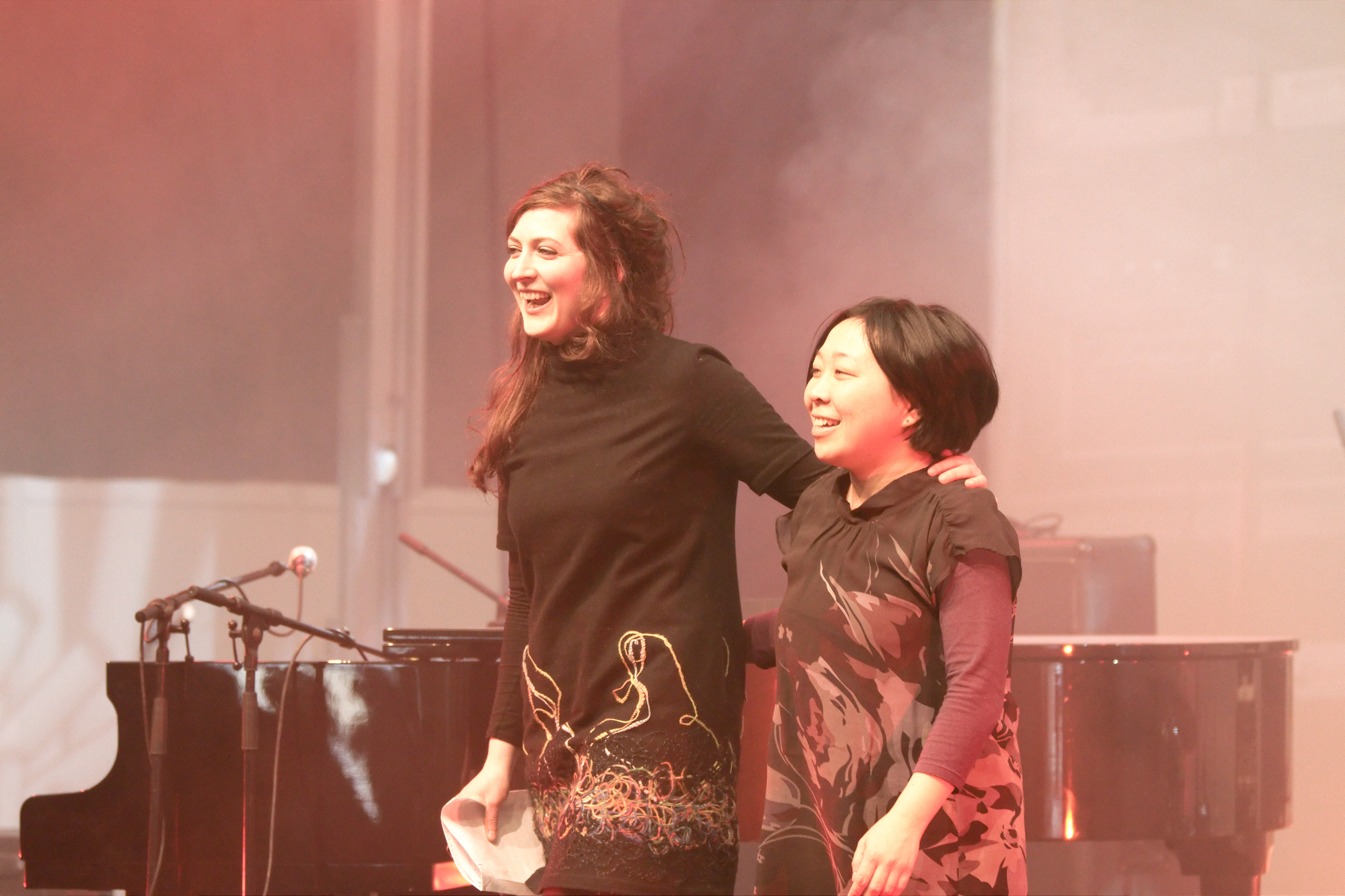 Donkey Monkey (Yuko Oshima and Ève Risser) live at Japan Expo Sud 2010 (Marseille, France).